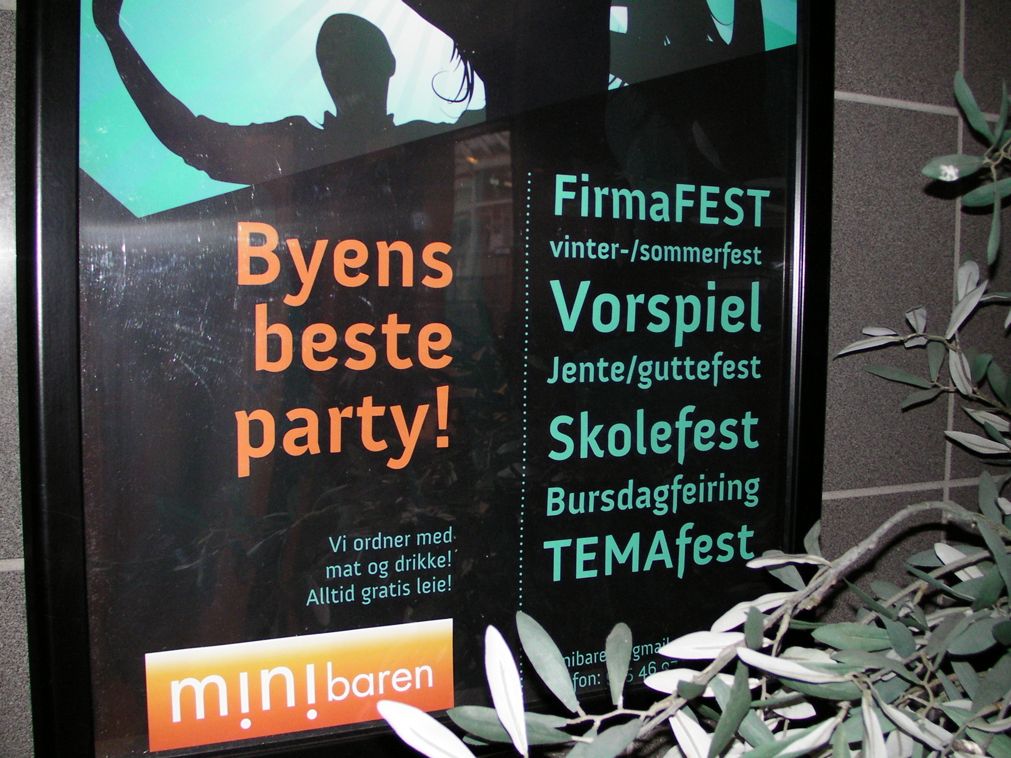 Minibaren Bodo